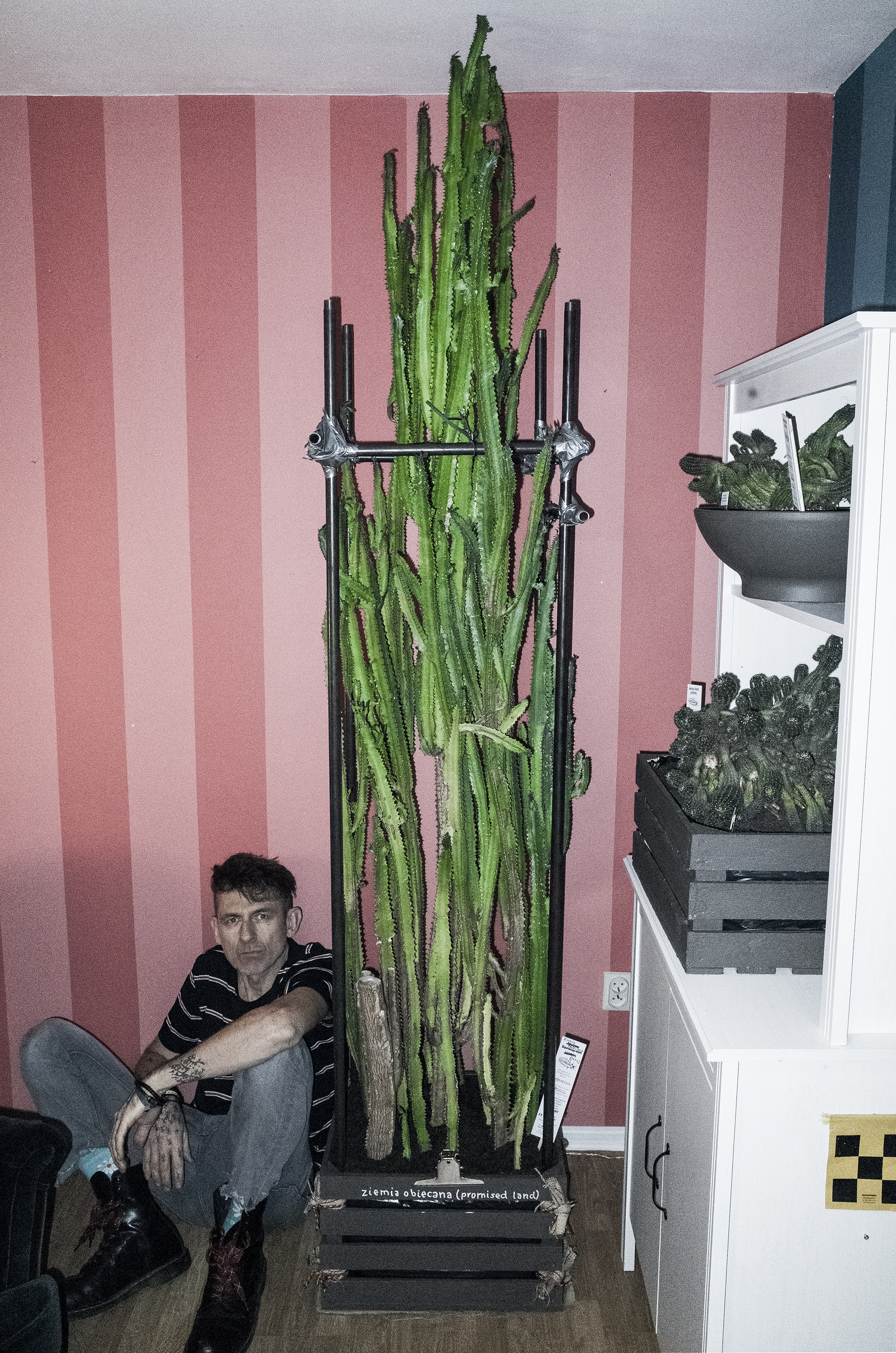 By Elvin Flamingo, artist from Poland: Promised Land & me, "Plants in the face of Politics", "Biointelligence", "The language of stray bodies". I take over CACTI & SUCCULENTS that are in need, abandoned, ugly, unwanted, neglected, dried, nobody's and often mutated plants grown in staircases, on window sills, in offices before the fall of the Berlin Wall. I assure that I will take care of every poor guy with historical burdens. I really have a hand for plants. At the moment, apart from 20 healthy plants, I have three poor guys: 2 Echinopsis chamaecereus and 1 Euphorbia trigona. Their names are Volga 24 (1979), Jelcz 043 (1974) and Promised Land (1972). "Plants in the face of Politics", "Biointelligence", "The language of stray bodies".